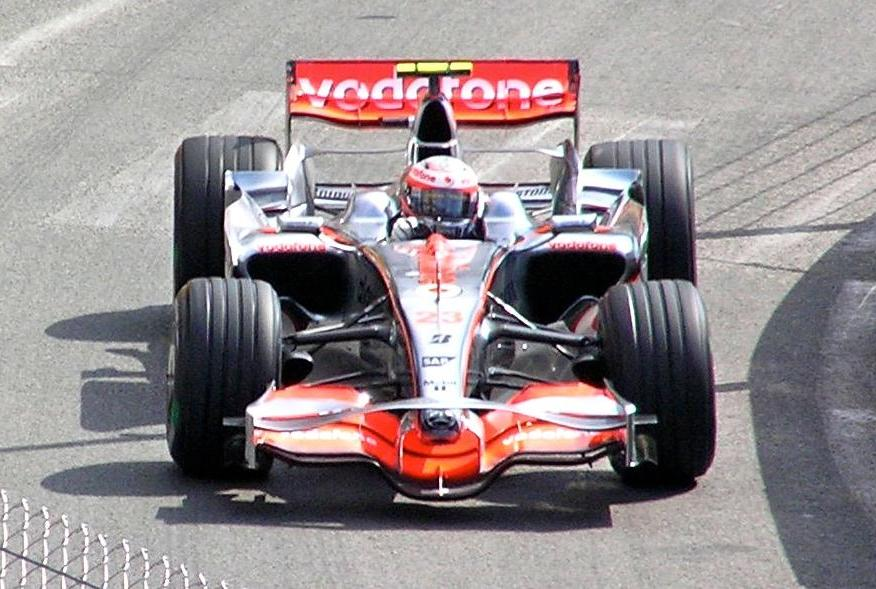 Heikki Kovalainen driving for McLaren at the 2008 Monaco Grand Prix.